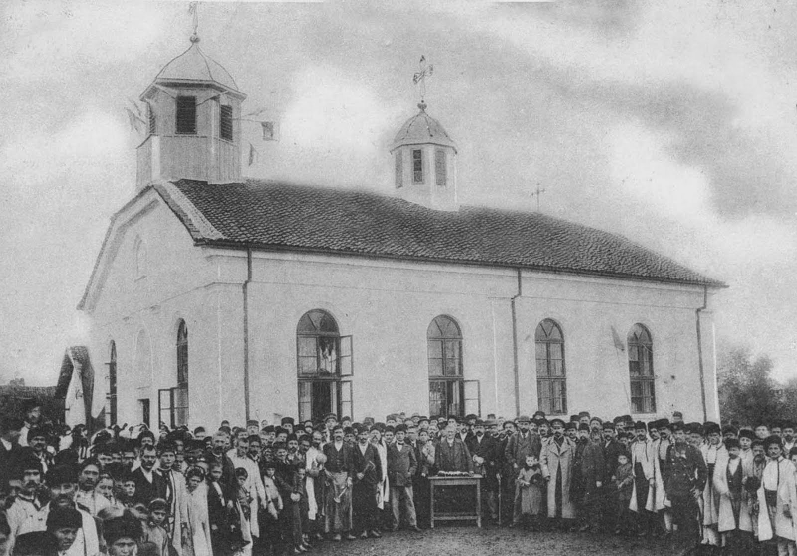 Inauguration of Saints Cyril and Methodius Church in Ferdinand Bulgaria, 14 October 1898